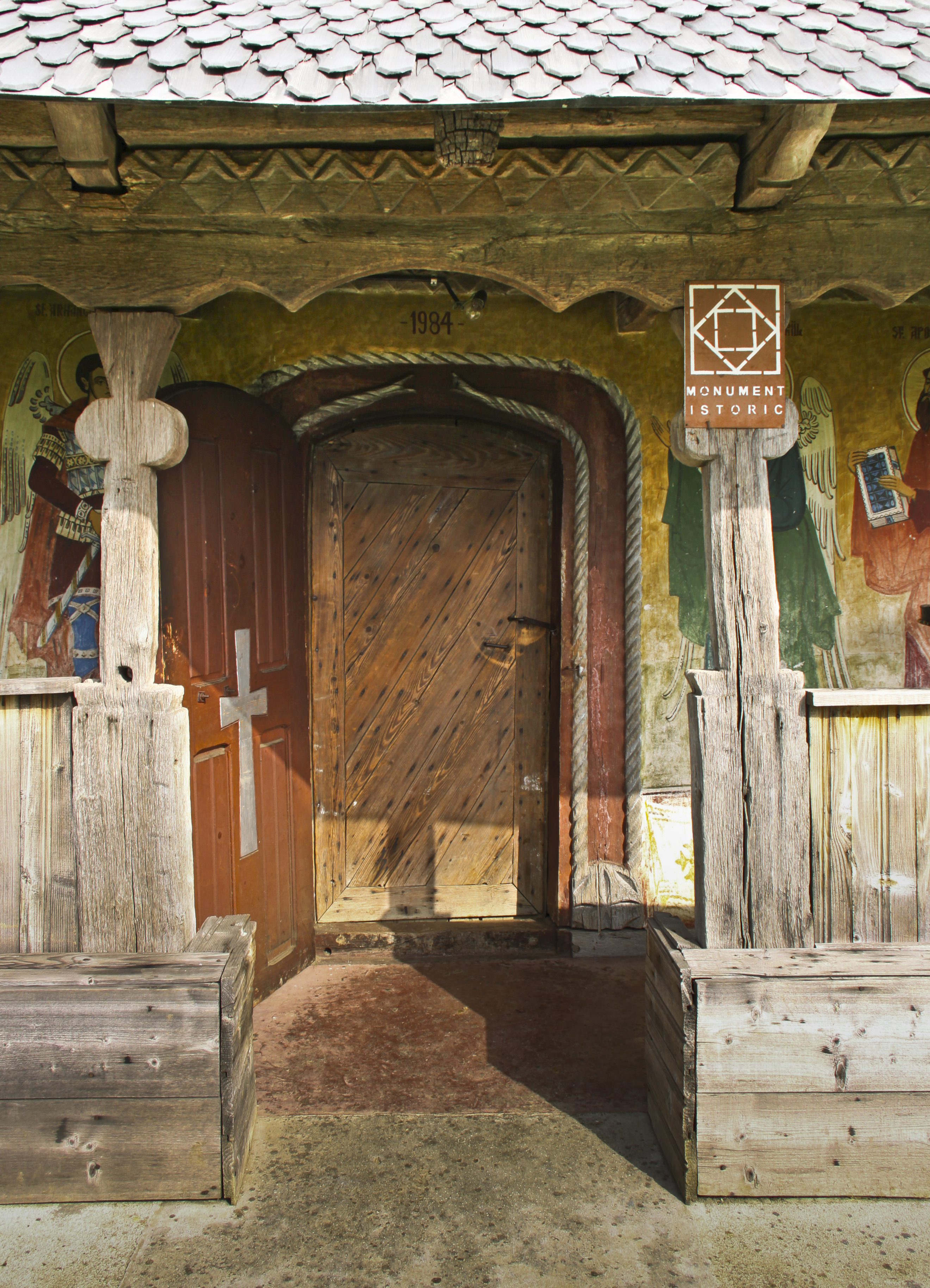 Priseaca, Olt, Romania: the wooden church tranferred from Marineşti, Gorj county.